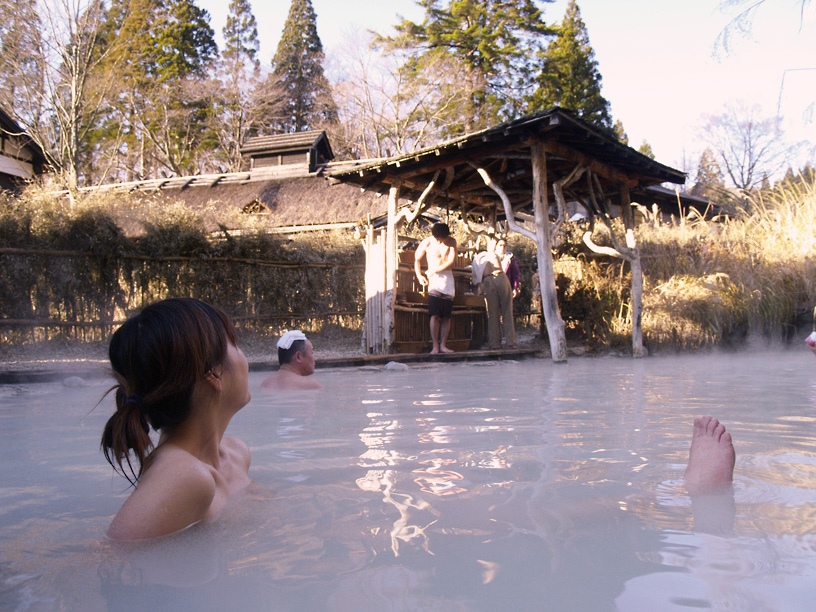 Tsurunoyu Onsen in Semboku, Akita, Japan.